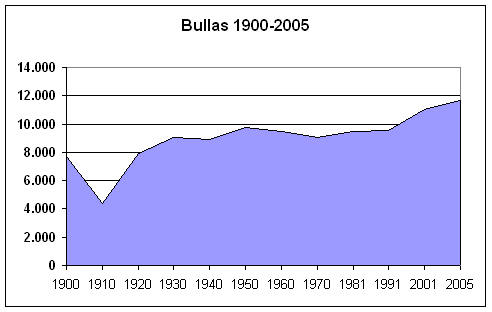 Bullas's population, Murcia, Spain, (1900-2005). Own work, given to PD. Source: Instituto Nacional de Estadística.